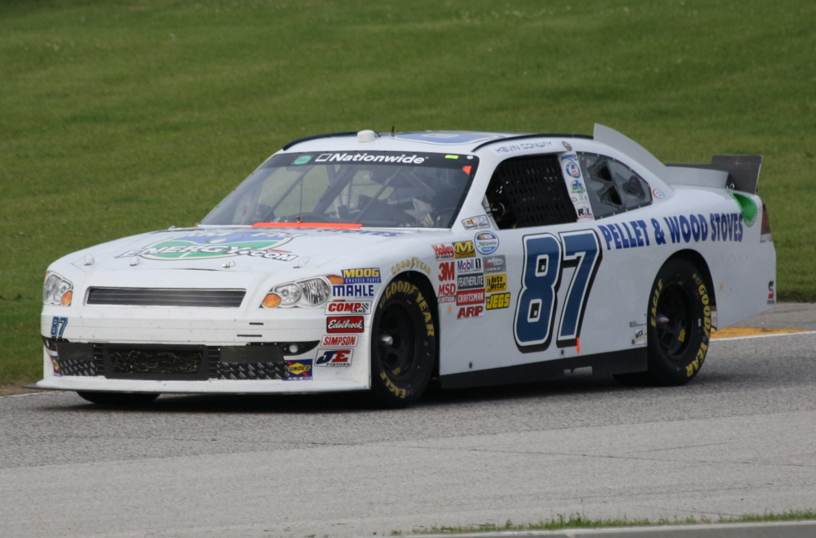 NASCAR driver Kevin Conway racing his stock car at Road America at the 2011 Bucyros 200 Nationwide Series race.